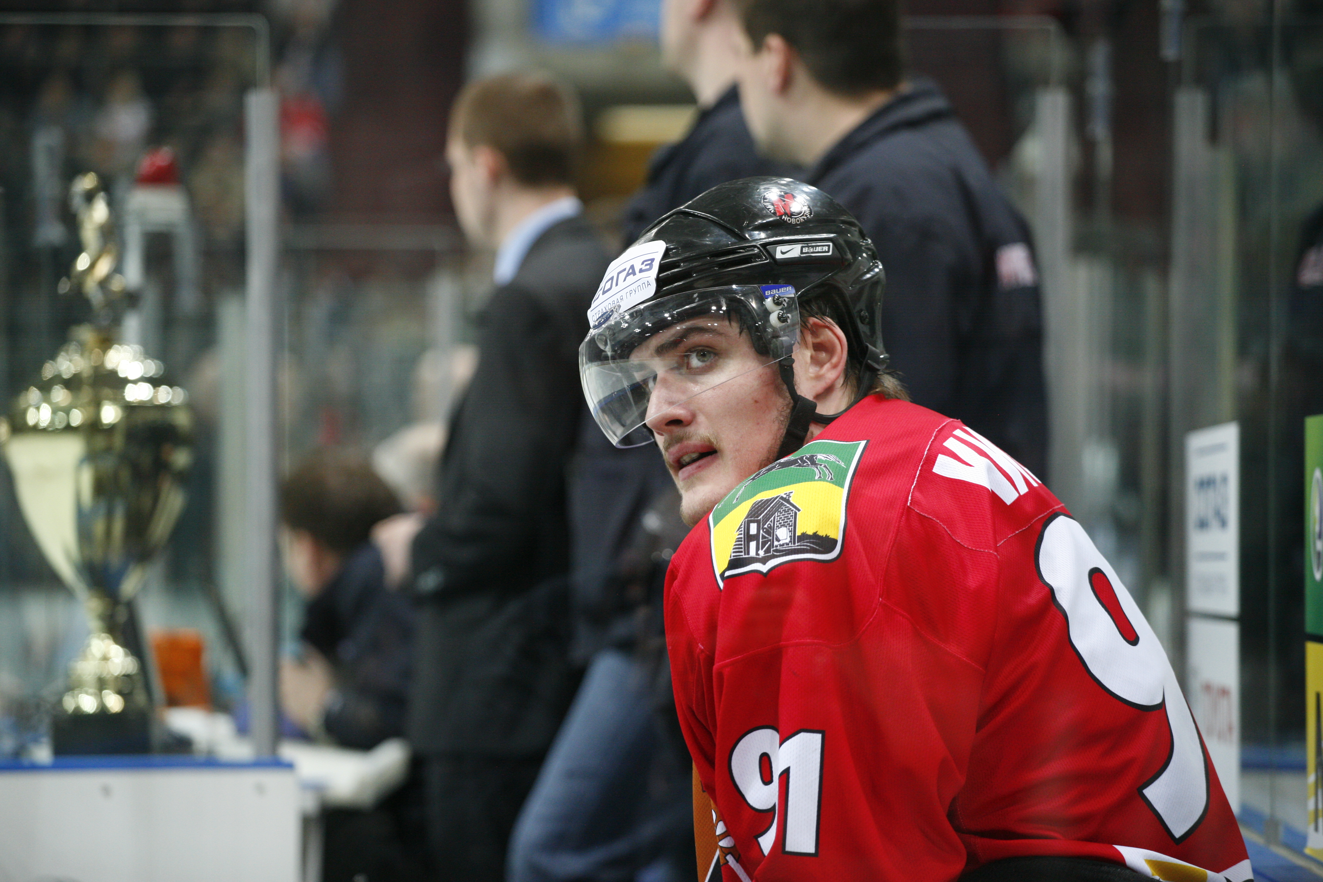 Old Kuznetsky Bears